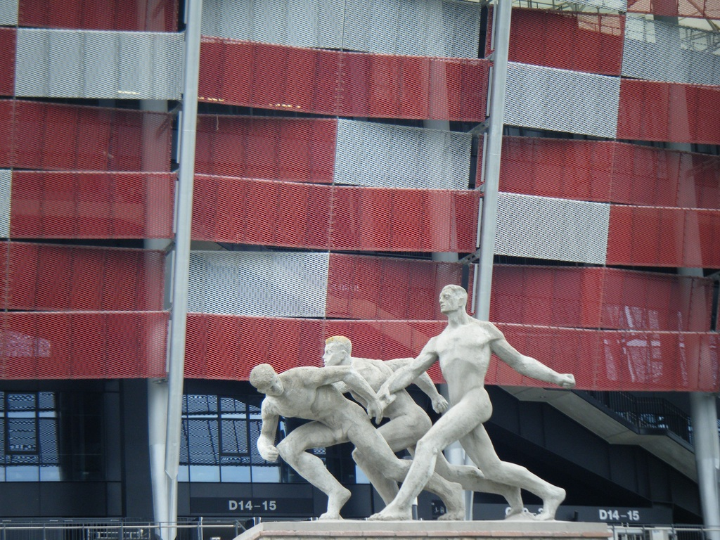 Sztafeta sculpture in Warsaw (nearby National Stadium, designed by Adam Roman).